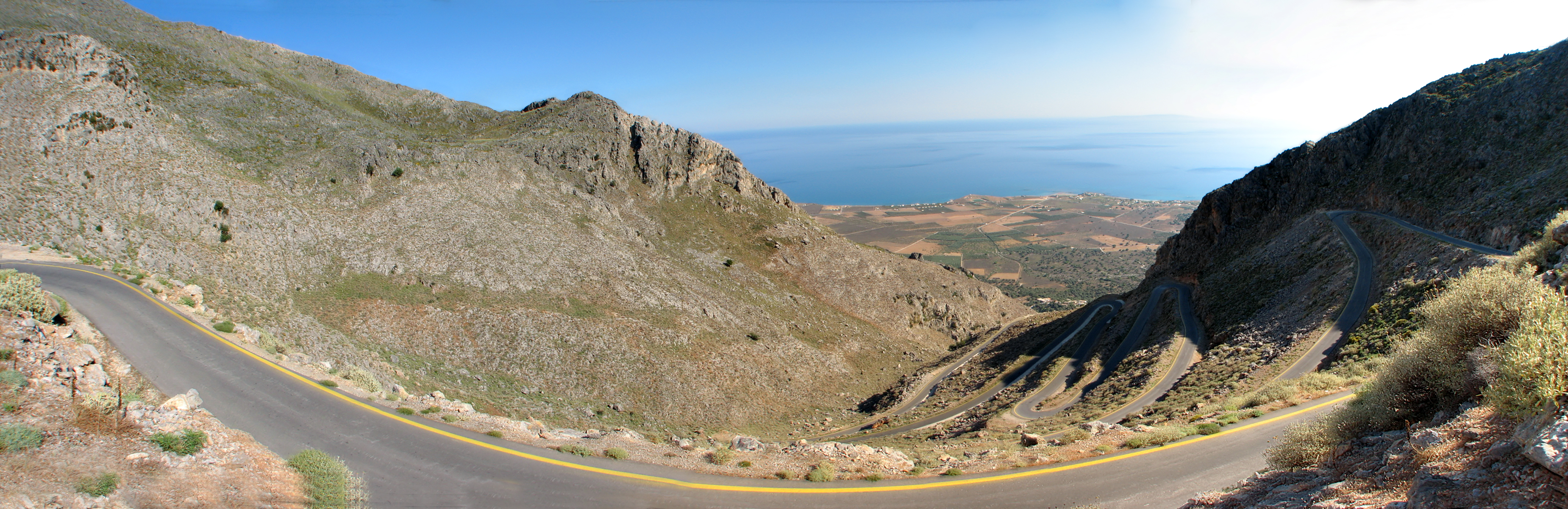 Panoramic view of some of the hairpin turns on the road between Kallikratis and Kapsodasos. The Frangokastello plain and the South Cretan Sea are seen in the distance. Created by stitching together 13 images.